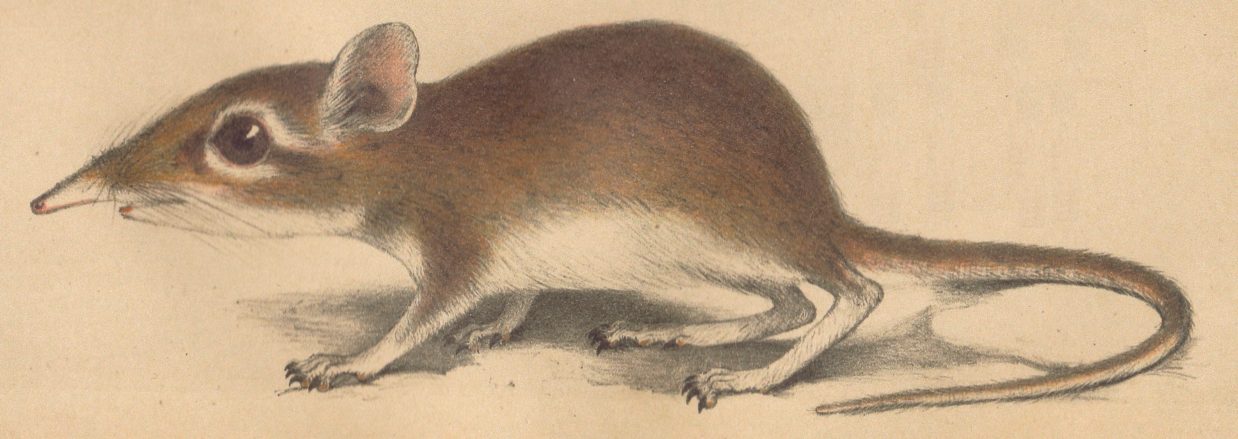 Drawing of Elephantulus rufescens from the species description of Wilhelm Peters published 1878: Über die von Hrn. J. M. Hildebrandt während seiner letzten ostafrikanischen Reise gesammelten Säugethiere und Amphibien. Monatsberichte der Königlich-Preußischen Akademie der Wissenschaften, 1878, pp. 194–209 (plate 1)